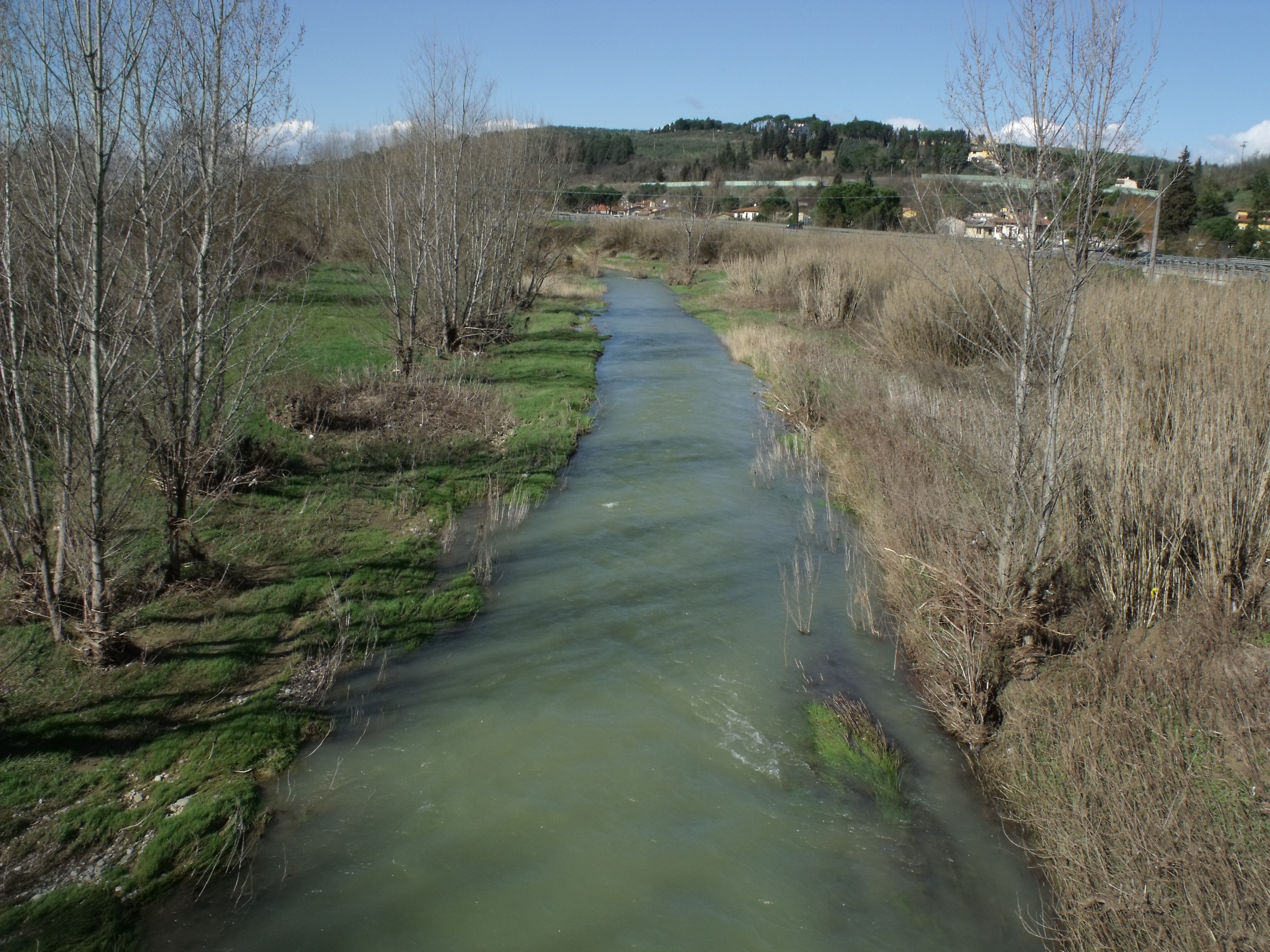 The Pesa River in Ginestra Fiorentina, hamlet of Lastra a Signa, Province of Florence, Tuscany, Italy